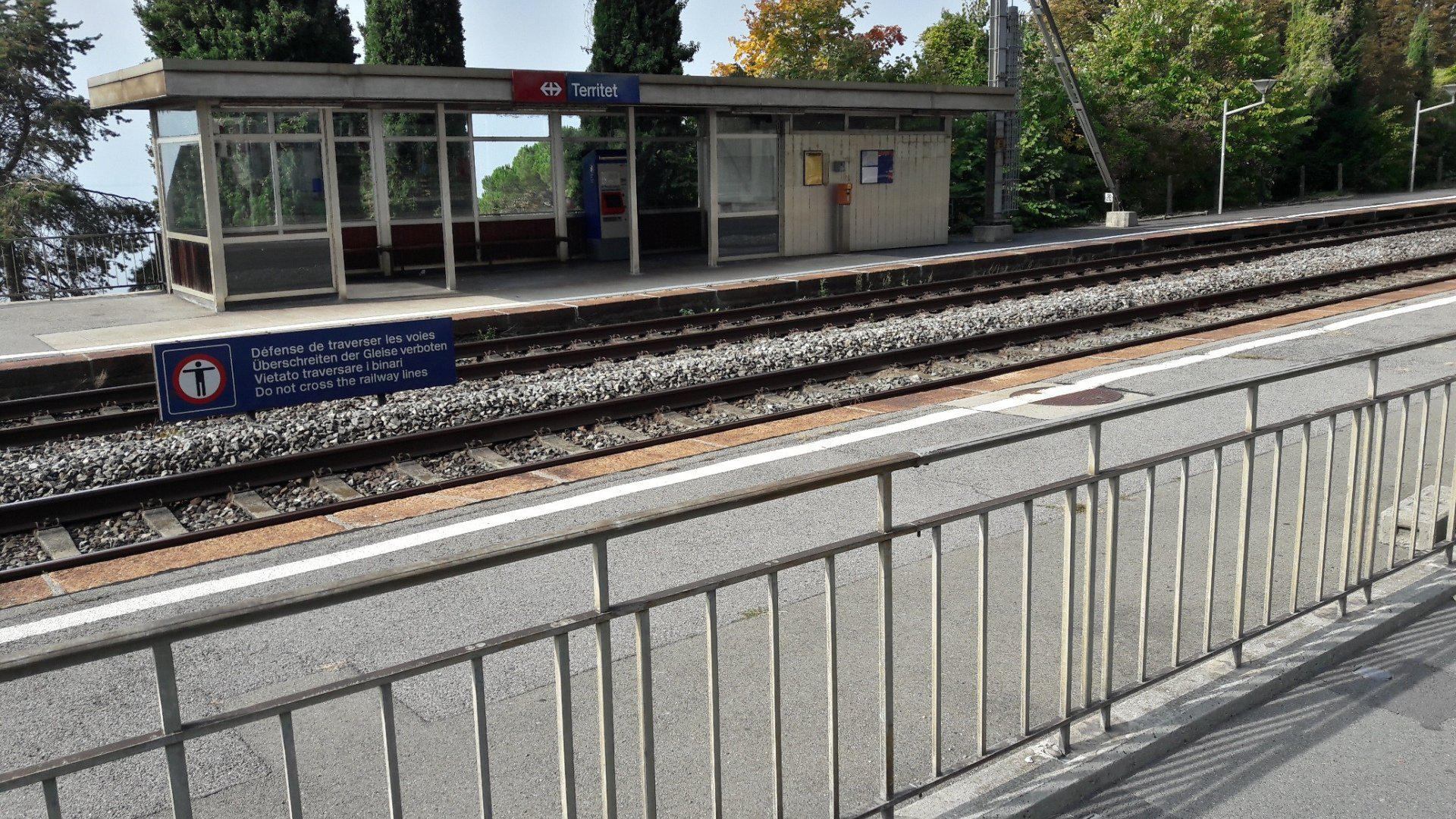 Territet railway station in Territet, Switzerland.